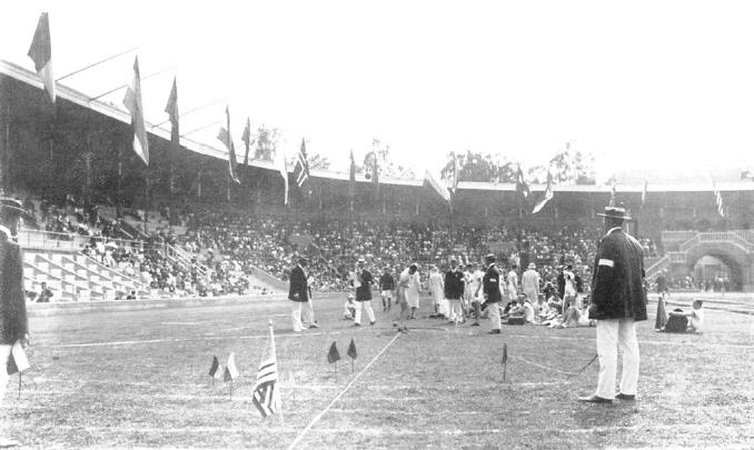 The shot put competition at the 1912 Summer Olympics